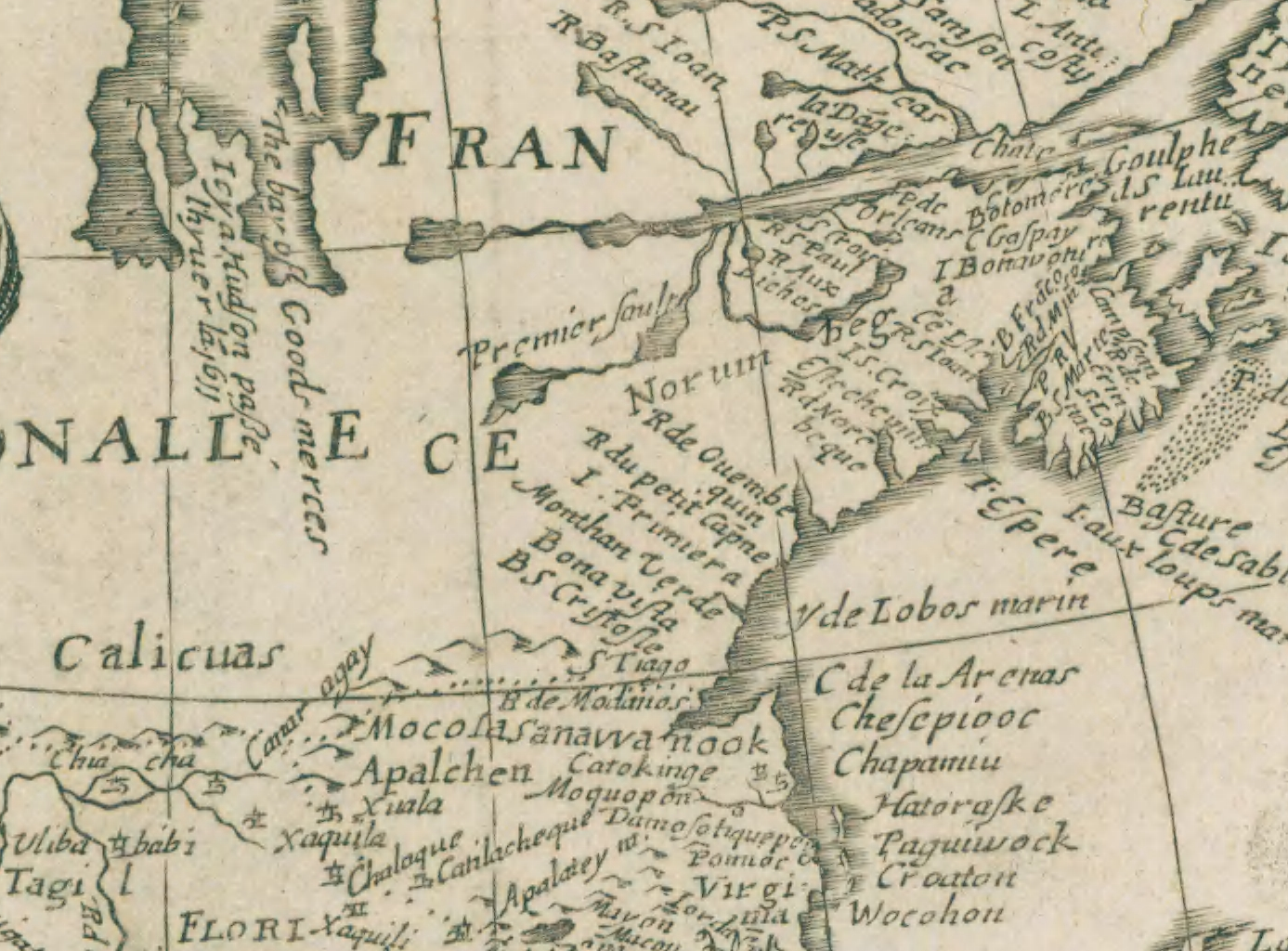 Clip from "Carte de L'AMERICQVE Corrigce, et augmentre, dessus toutes les aultres cydeuant 1671